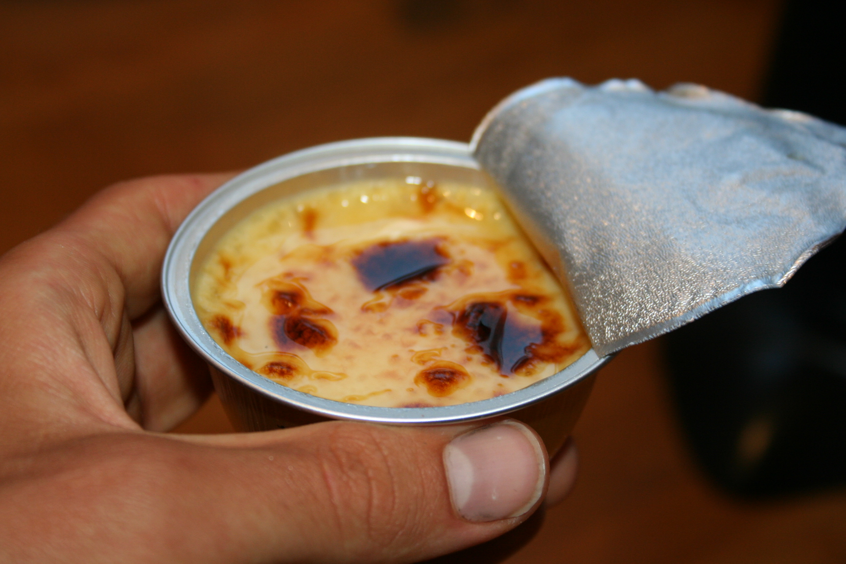 This is a typical store bought Spanish flan. You can find these in any supermarket around Spain, they are sold under a number of brands, and come in different packaging. The common flavors are Flan de Huevo (egg) and Vanilla.